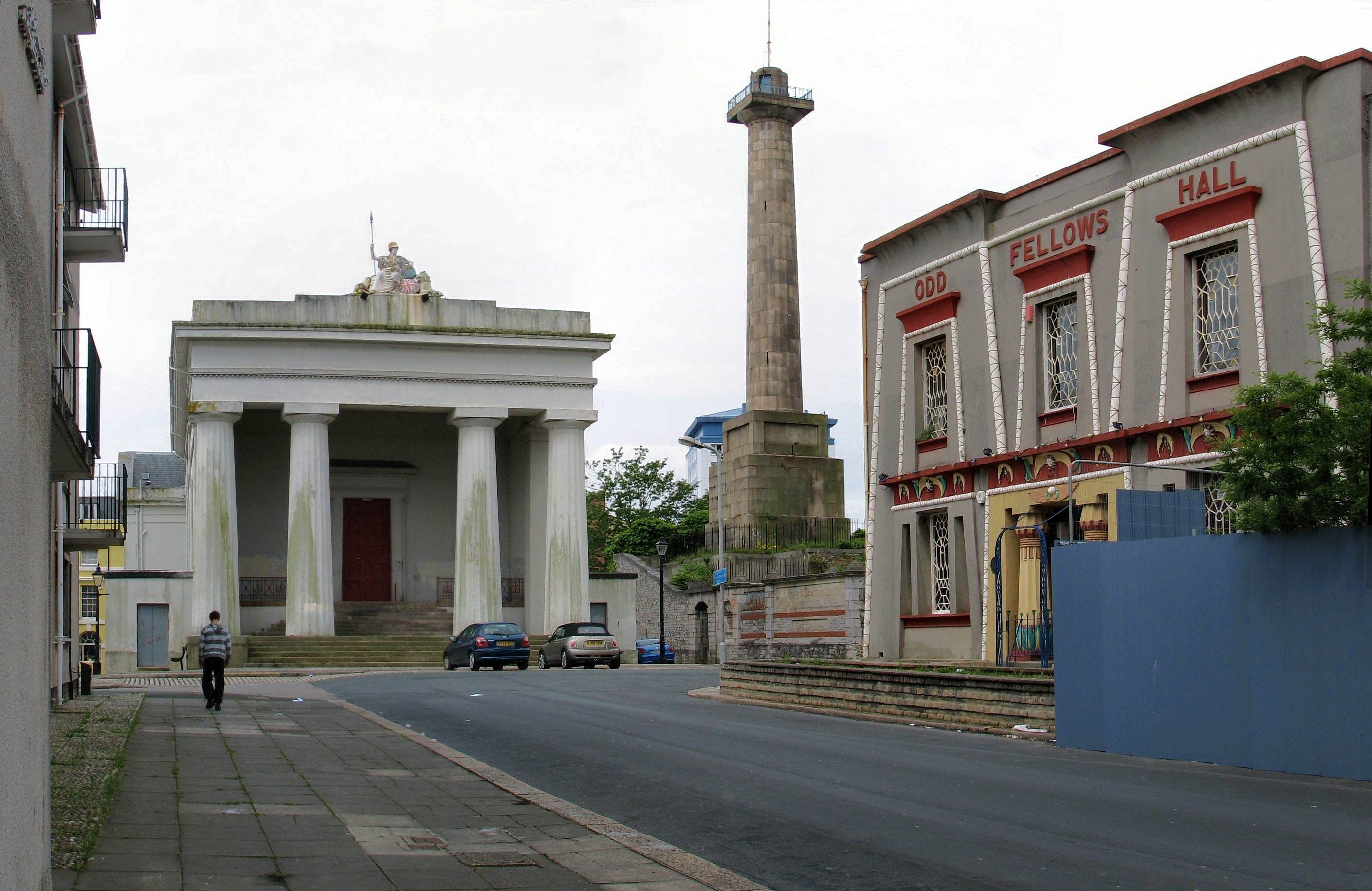 John Foulston's Town Hall, Column and Library in Devonport, Devon, UK in 2008. Taken from almost the same spot as this 1820's engraving.